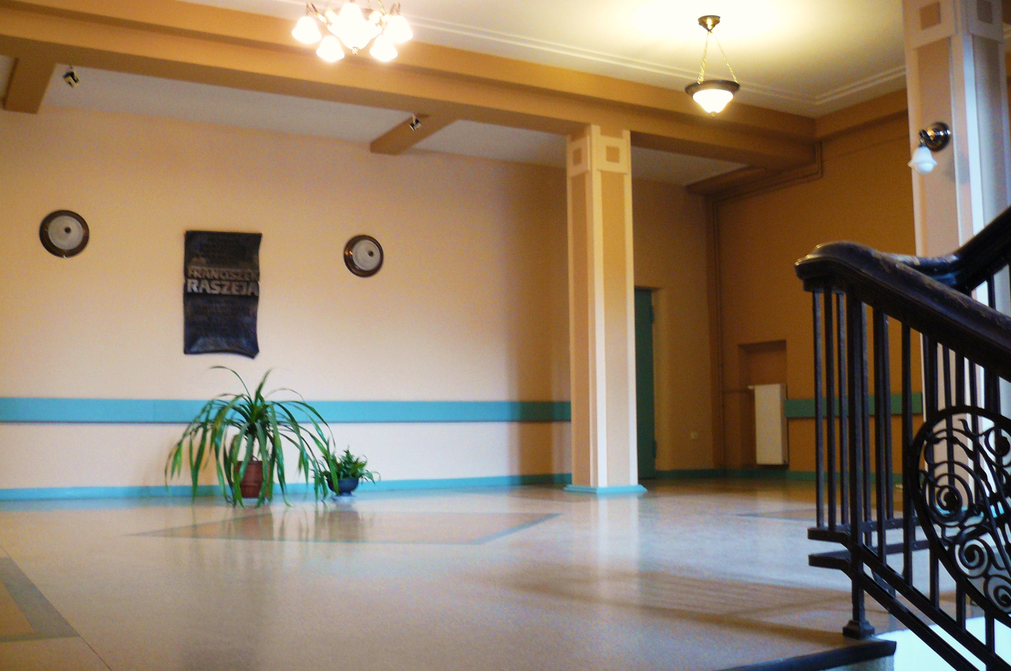 Raszeja Hospital, Poznań, hall.